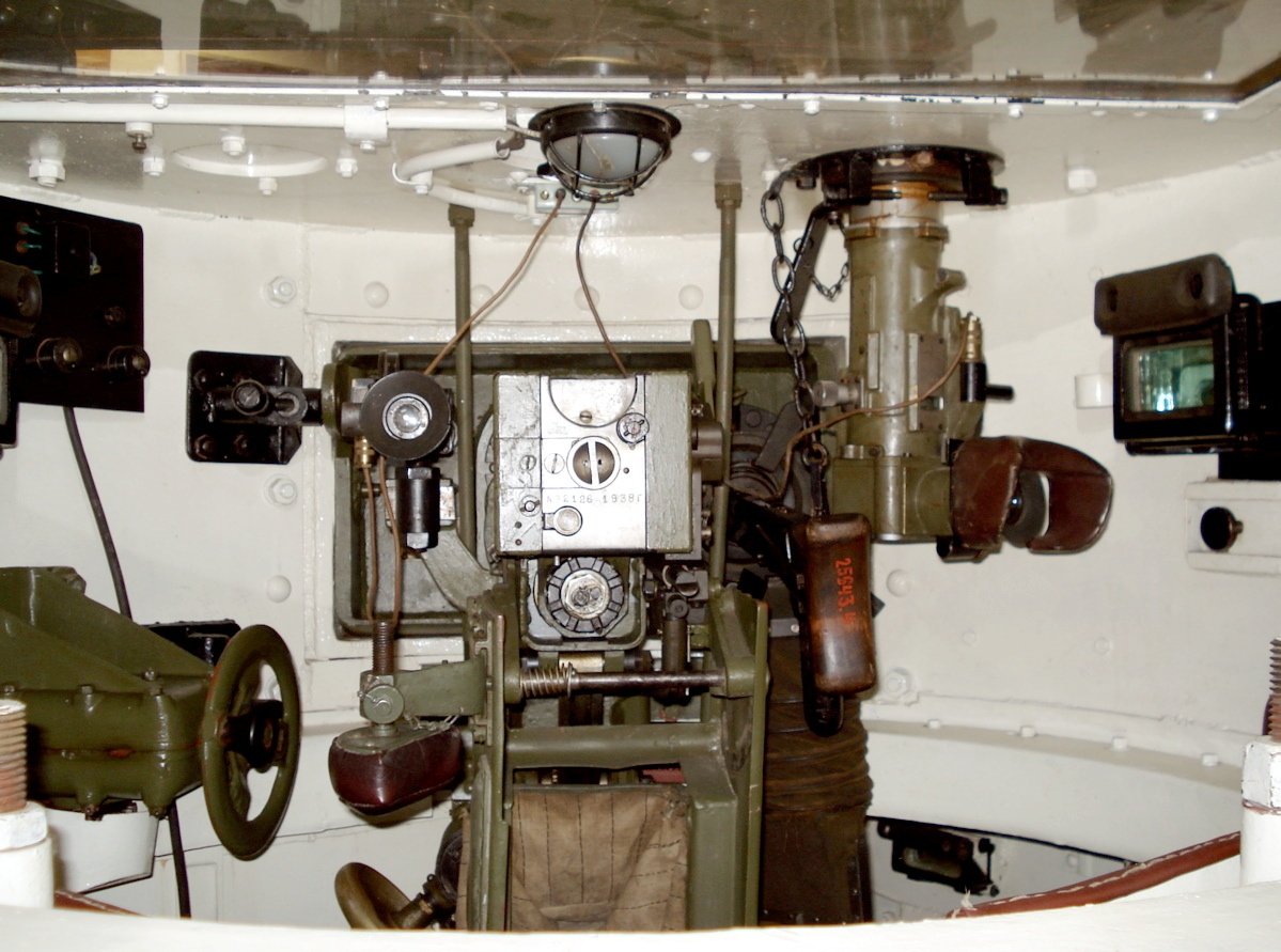 Soviet T-26 model 1933 tank, in Finnish markings, displayed in Finnish Tank Museum (Panssarimuseo) in Parola. This particular tank has been restored to drivable condition. View of turret interior.